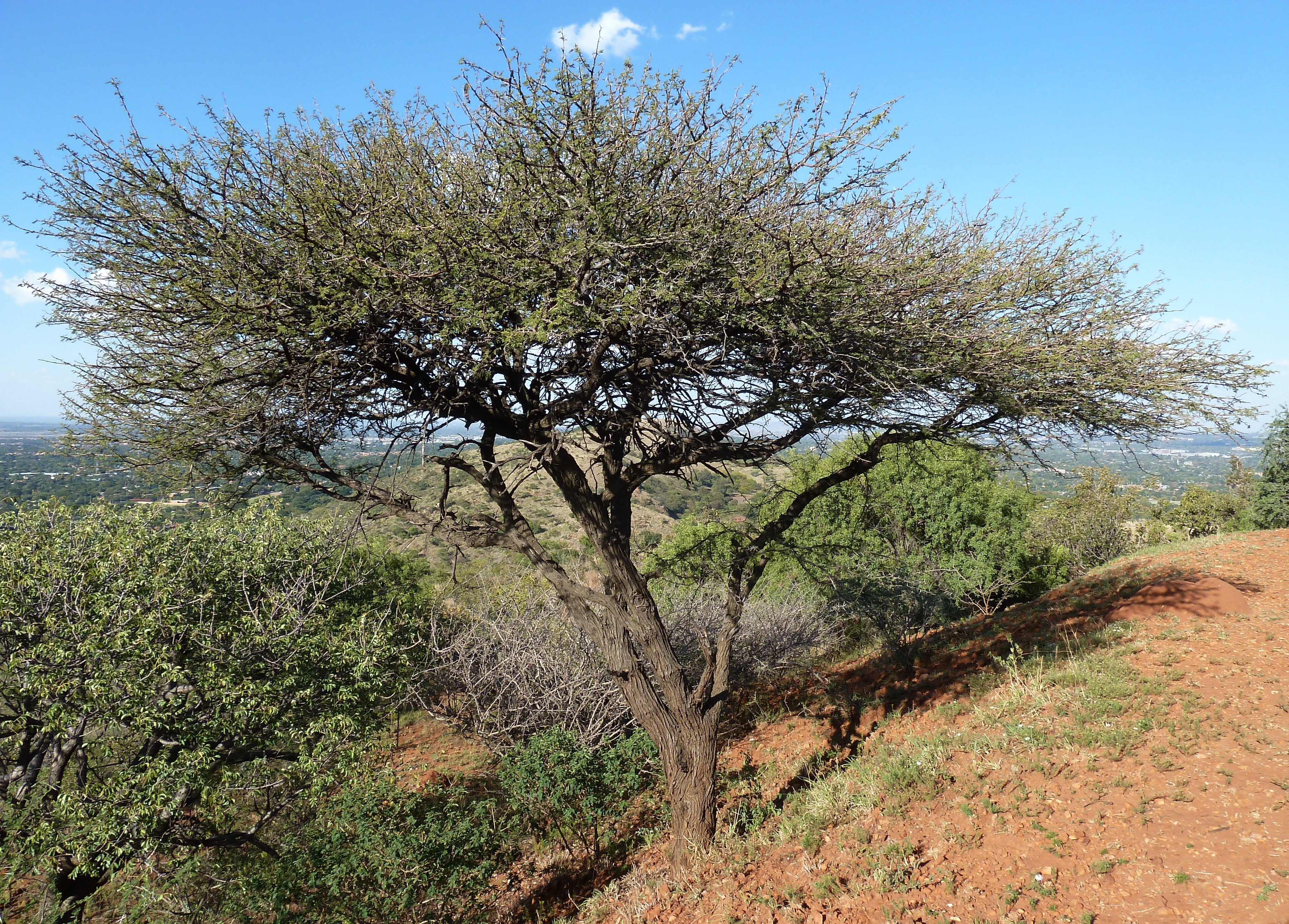 A Scented thorn at Fort Wonderboompoort in the Wonderboom Nature Reserve, Pretoria. It is distinguishable from an Umbrella thorn by articulated seed pods that are not curled up.